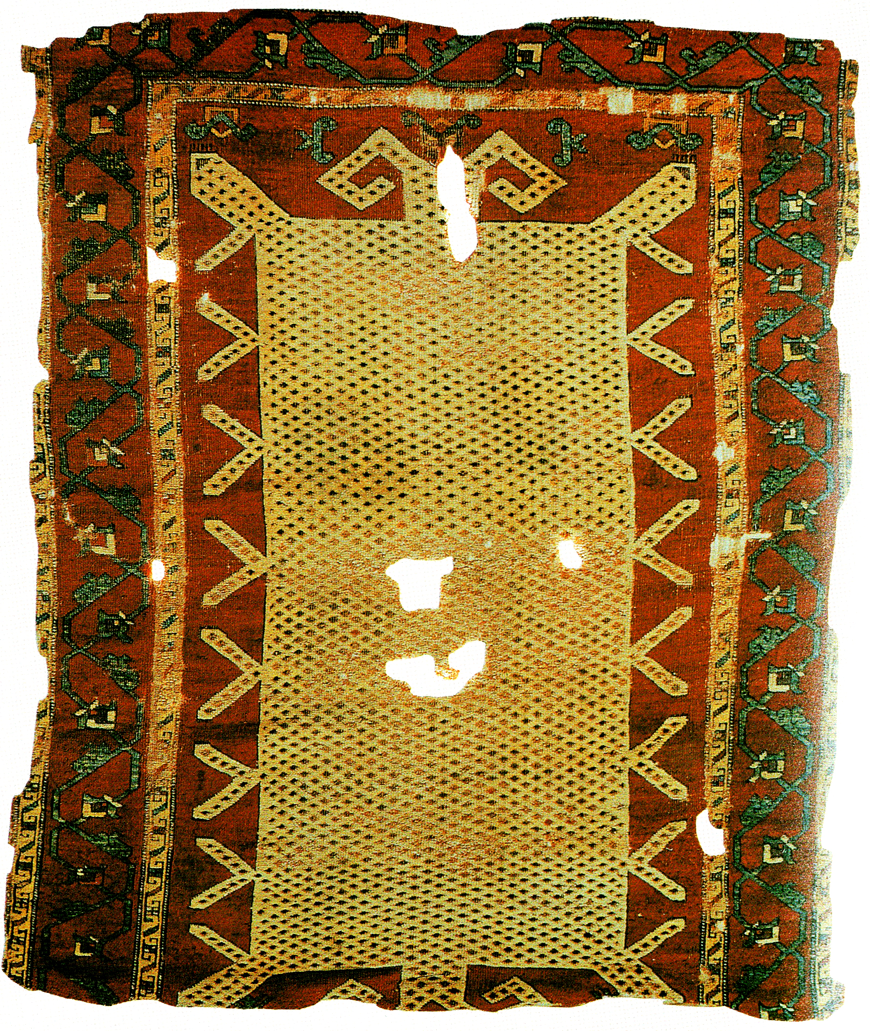 Azerbaijanian rug "Kazakh". 18 century. Museum of Turkish and Islamic Art, Istanbul.